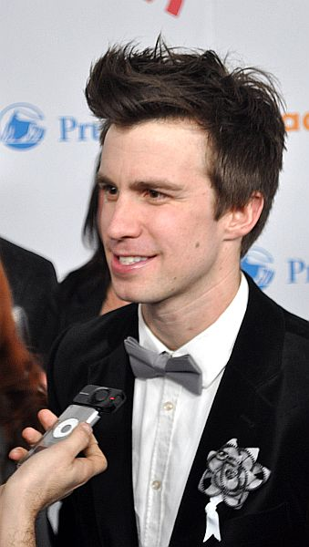 Actor Gavin Creel of "Hair" attends 21st Annual GLAAD Media Awards on March 13, 2010 at the Marriott Marquis Hotel in NYC.